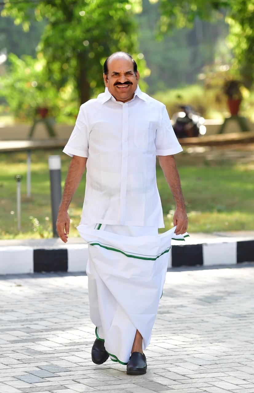 CPIM Kerala state secretary